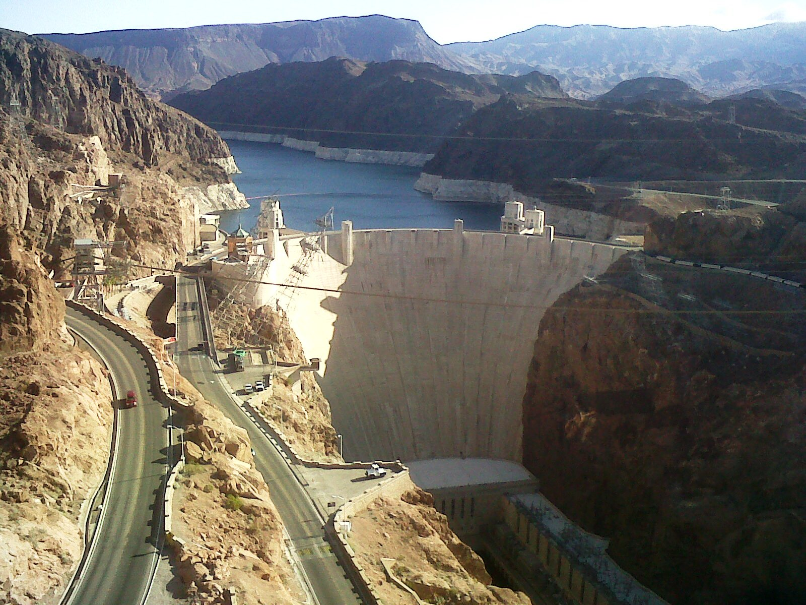 Hoover Dam